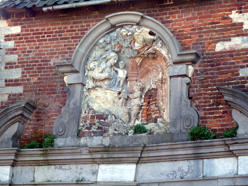 Relief above entrance to Oplinter Abbey Beschadigd reliëf boven de toegangspoort tot het klooster van Maagdendaal (Oplinter)